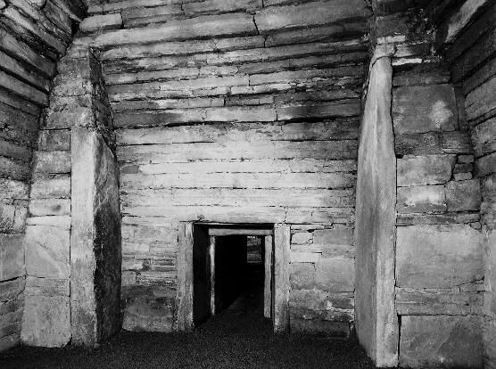 South wall with entrance passage of Maeshowe Chambered Cairn, Orkney